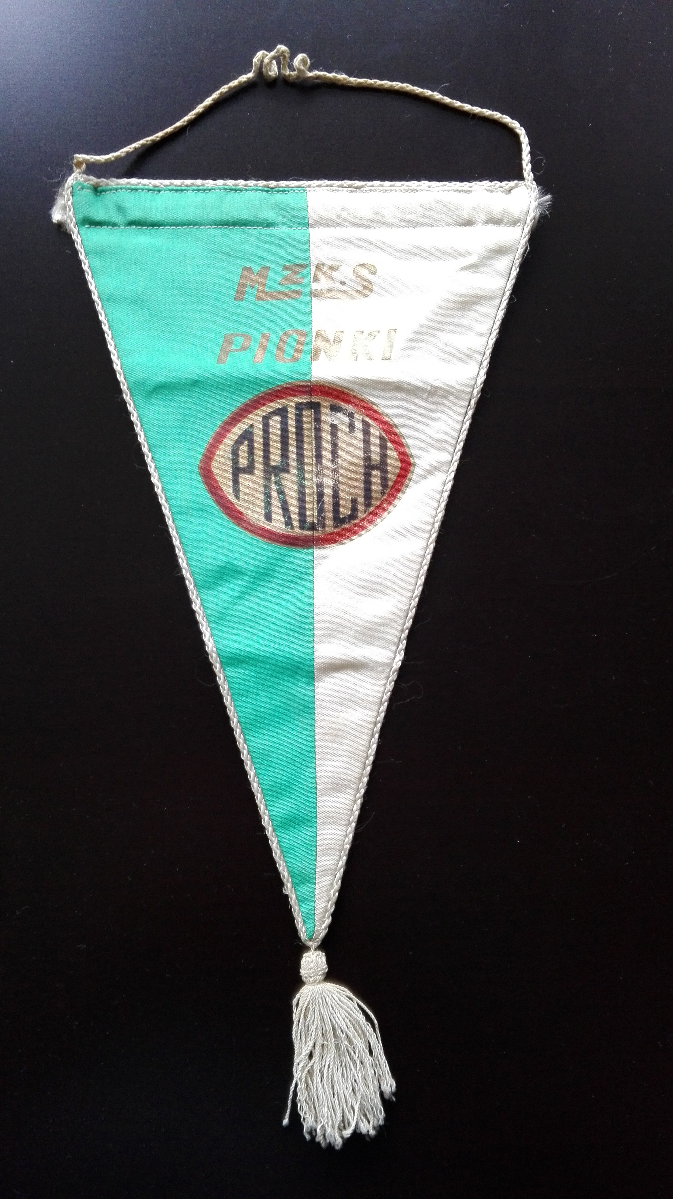 Pennant if MZKS „Proch“ Pionki